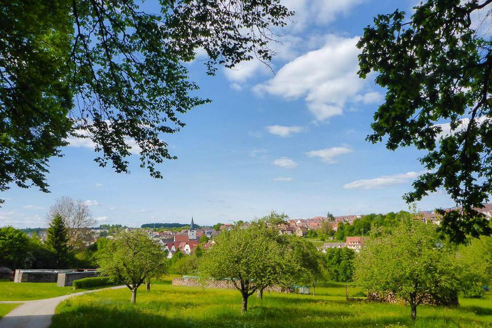 Grafenau Döffingen through the orchards on Schwippetal